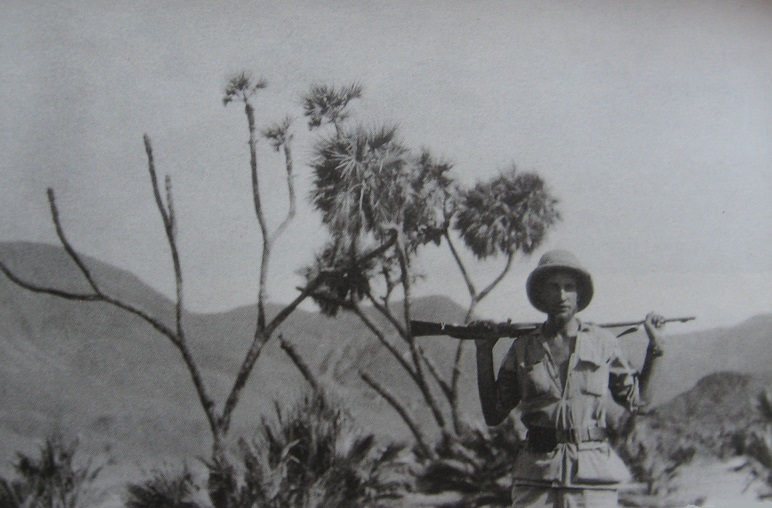 Photograph showing Wilfred Thesiger near the Gulf of Tadjoura (French Somaliland, now Djibouti) taken at the end of his 1933-1934 expedition across Aussa country (Aussa Sultanate), which stood astride the border between Ethiopia and French Somaliland. The expedition is narrated in his book The Danakil Diary. Journeys through Abyssinia, 1930-1934.